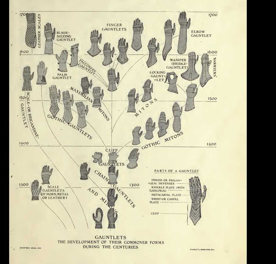 Bashford Dean compared the evolution of armour and weapons with biological evolution.